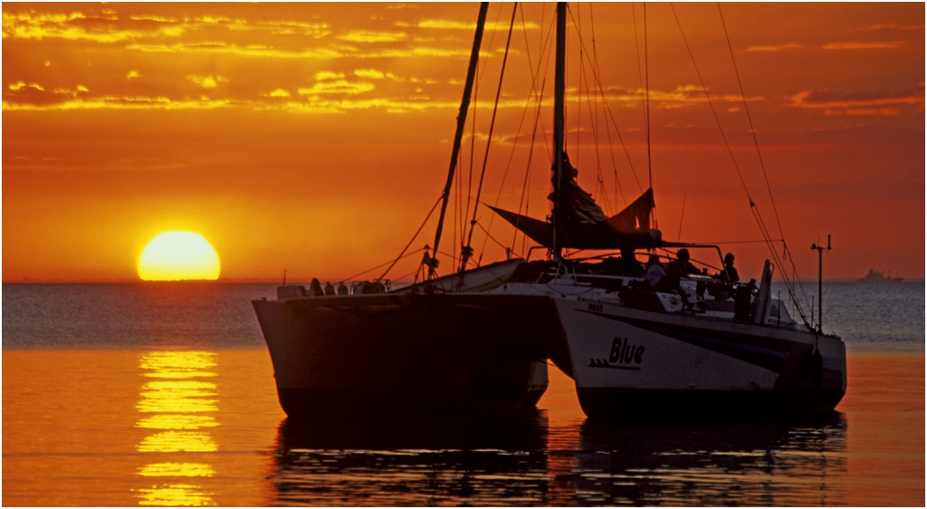 A big Catamaran "Blue" resting at Inhake Island near Maputo, Mozambique